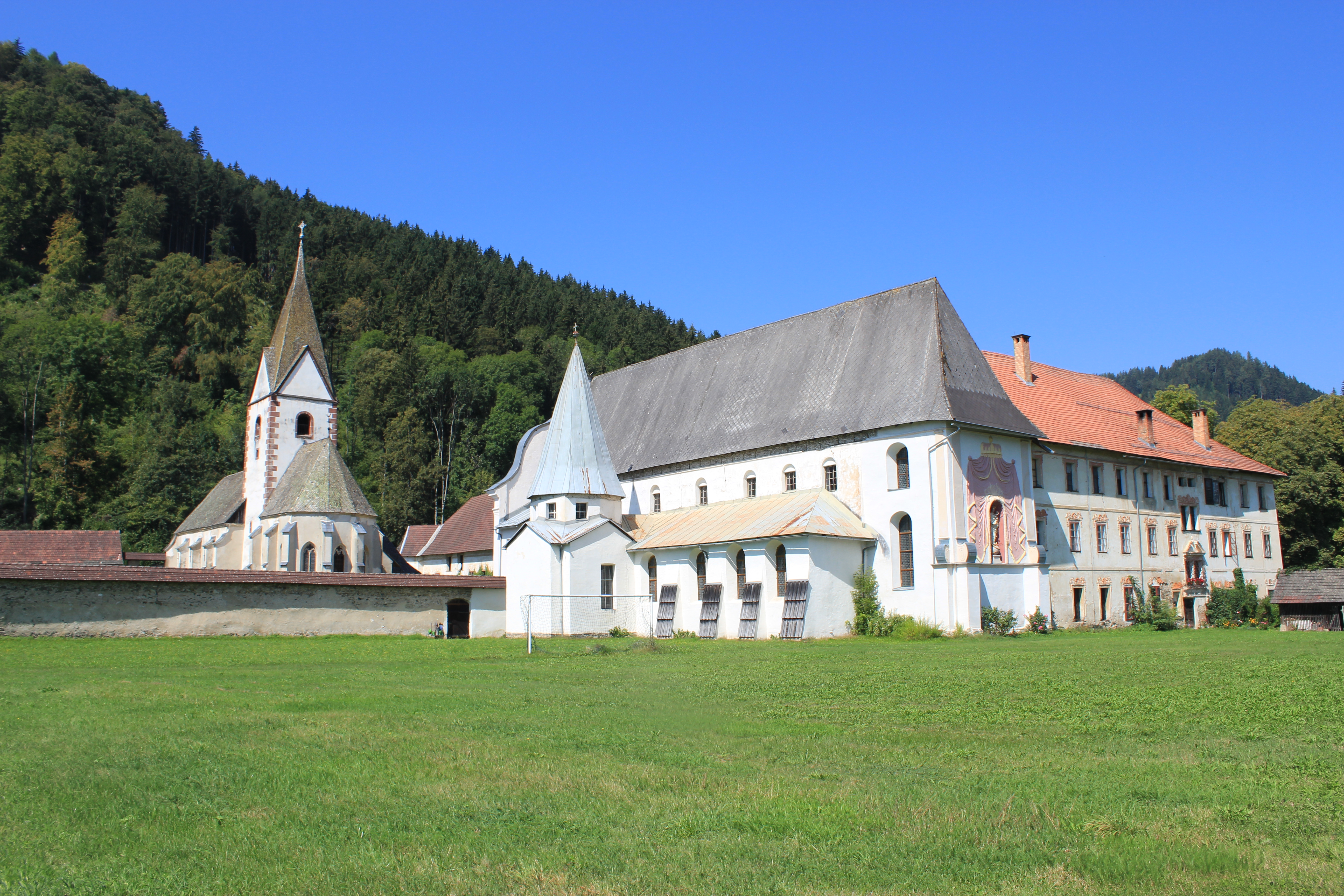 Former monastery in Griffen